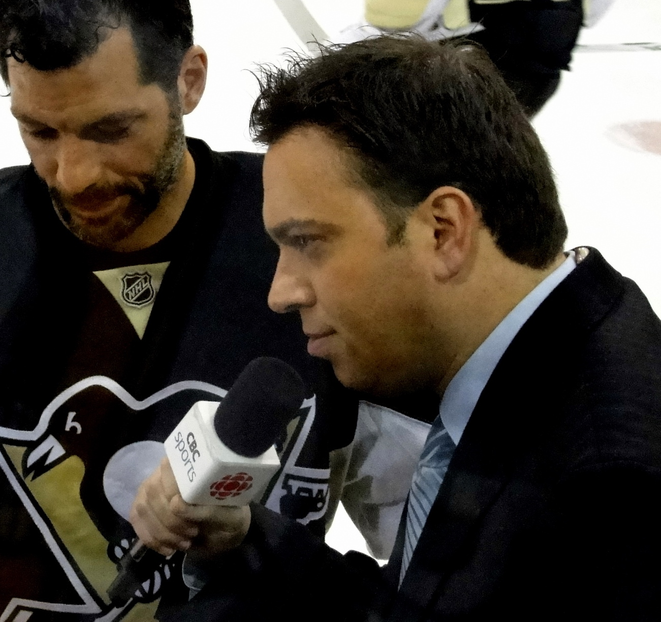 Bill Guerin of the Pittsburgh Penguins is interviewed by Hockey Night in Canada reporter Elliotte Friedman before a May 8, 2010 playoff game against the Montreal Canadiens at Mellon Arena in Pittsburgh, PA.